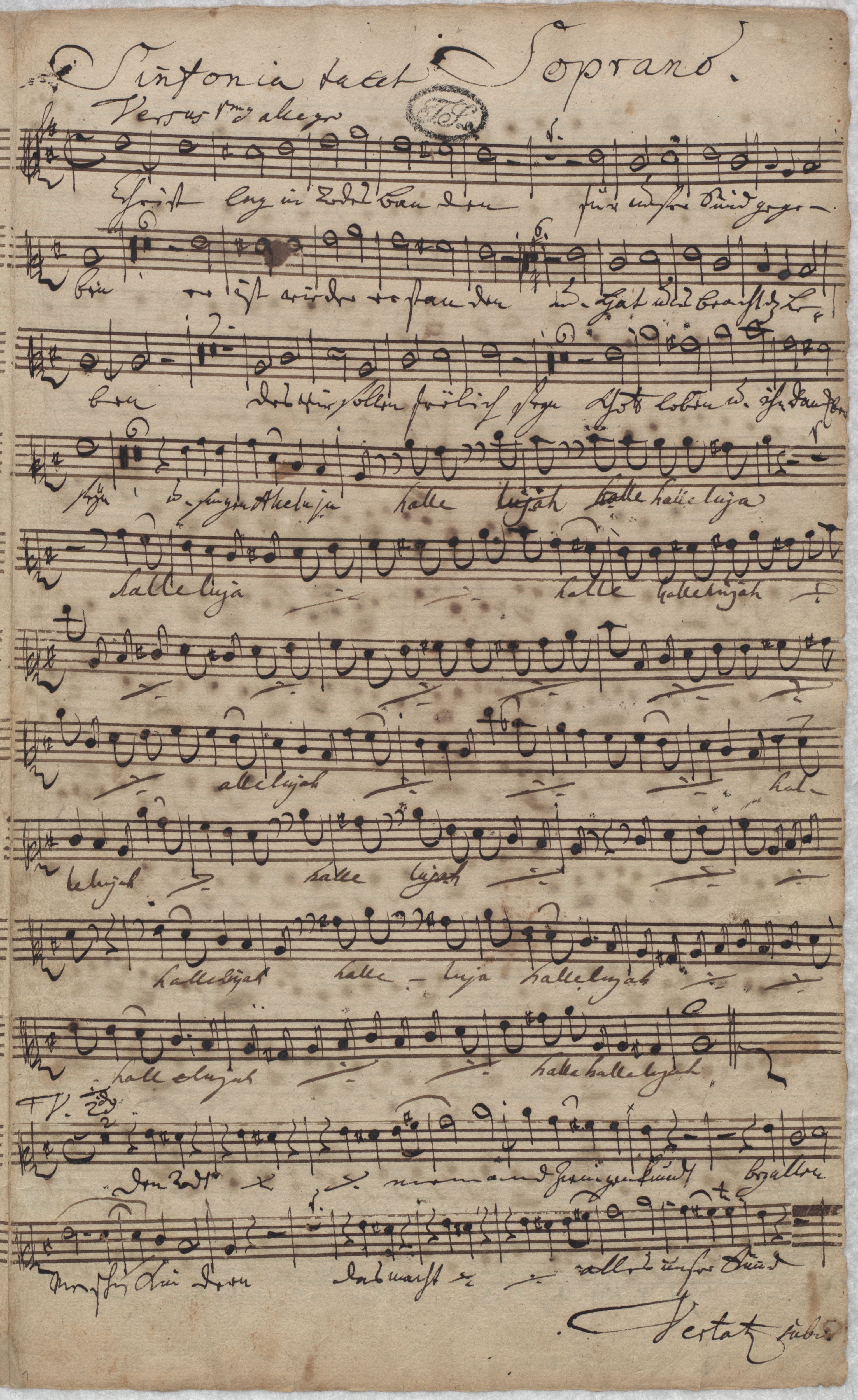 First page in autograph score of soprano part of Bach Cantata Christ lag in Todesbanden, BWV 4 from the Thomaskirche in Leipzig. The scribe for the music is C.G. Meissner. The text is in Bach's own hand.